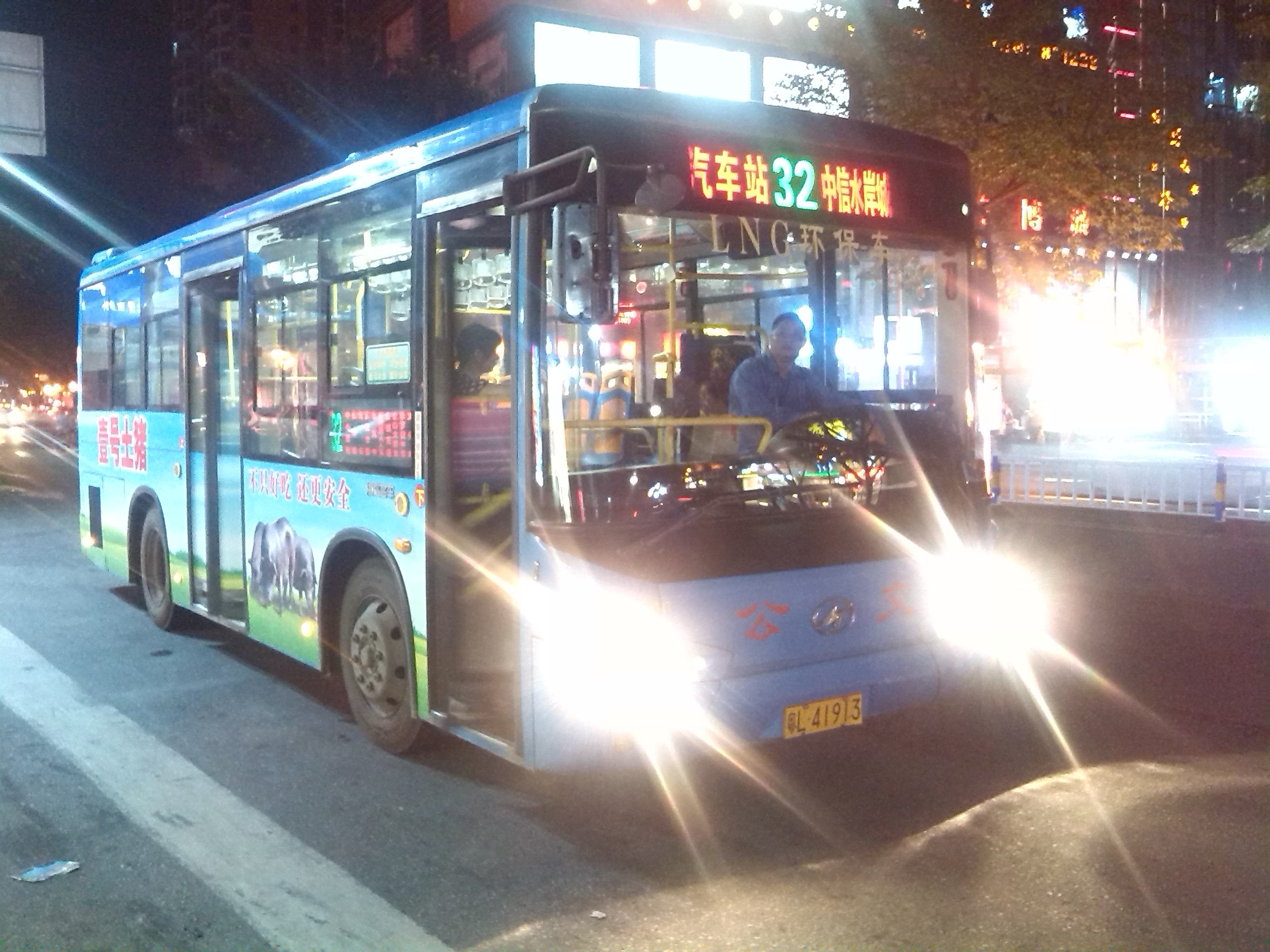 A Higer KLQ6850GCE4 bus which is powered by liquid natural gas and enlisting on Huizhou City Bus Cooperation Route 32. The plate number of this bus is "粤L•41913" . The photo was taken at the bus stop of Binjiang Park.